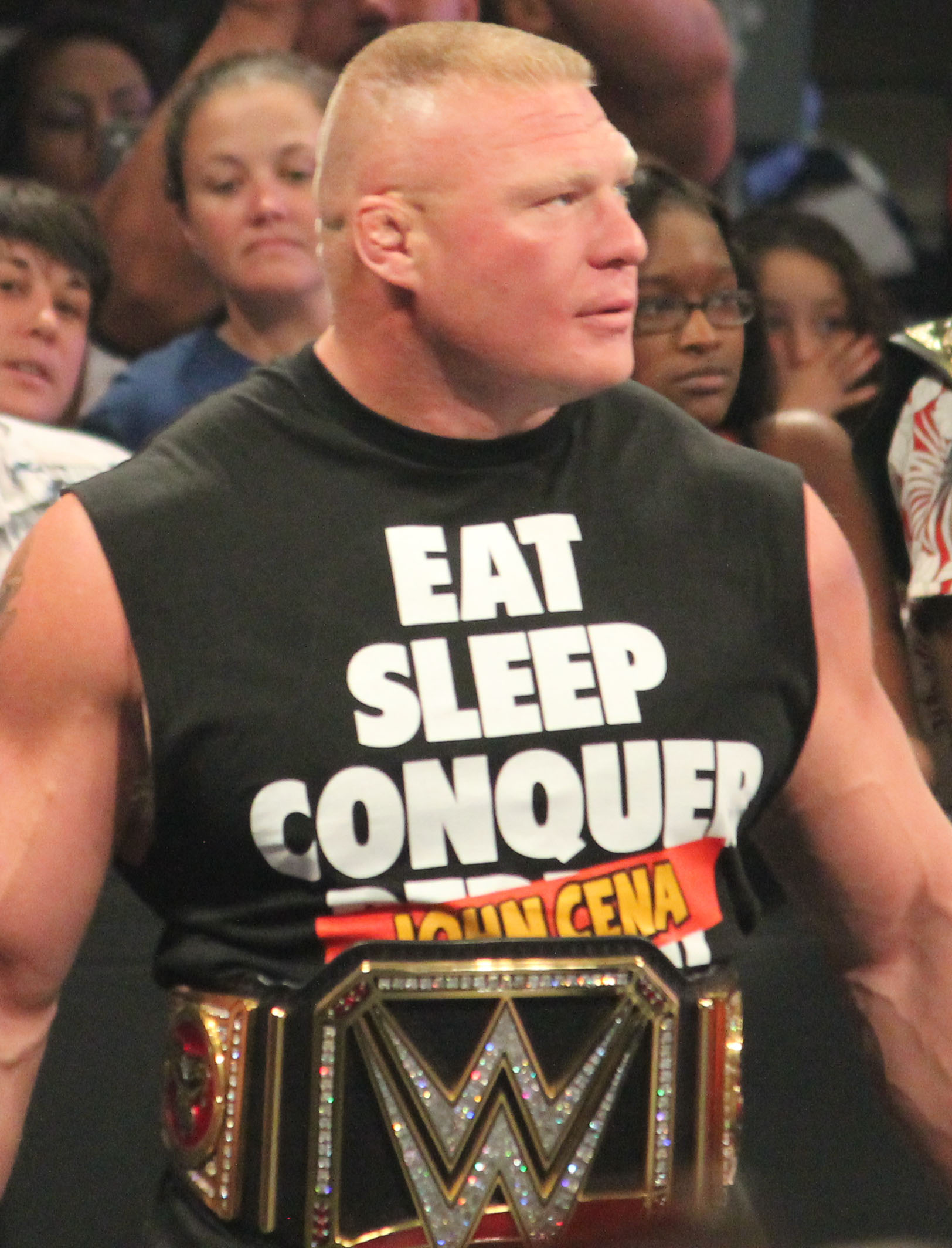 Brock Lesnar, as the WWE World Heavyweight Champion, at a WWE Raw event on September 15, 2014.